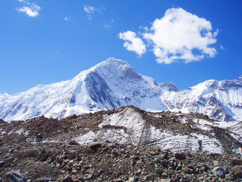 Biafo Glacier in Gilgit Baltistan, Pakistan